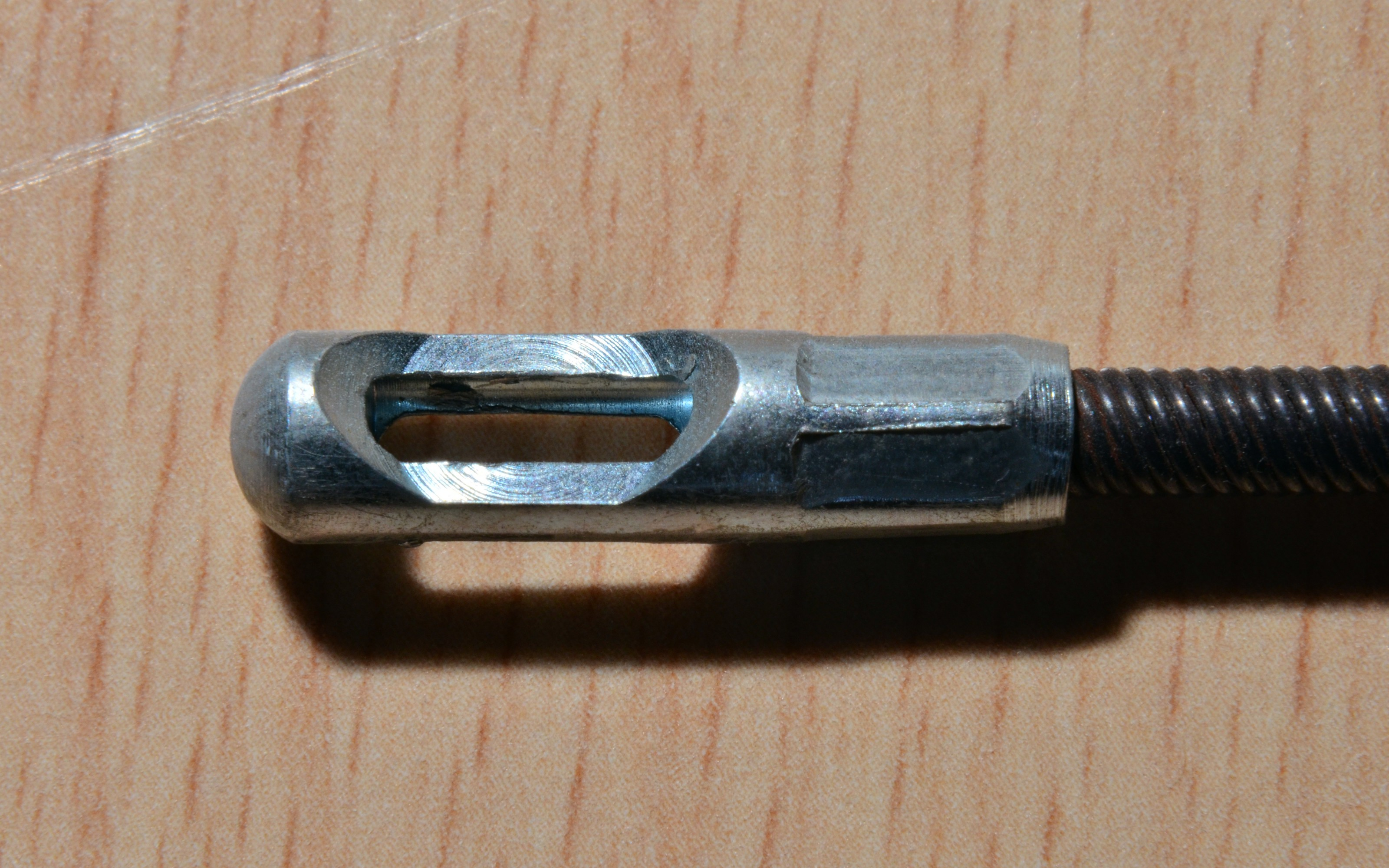 The business-end of a fishing broach.